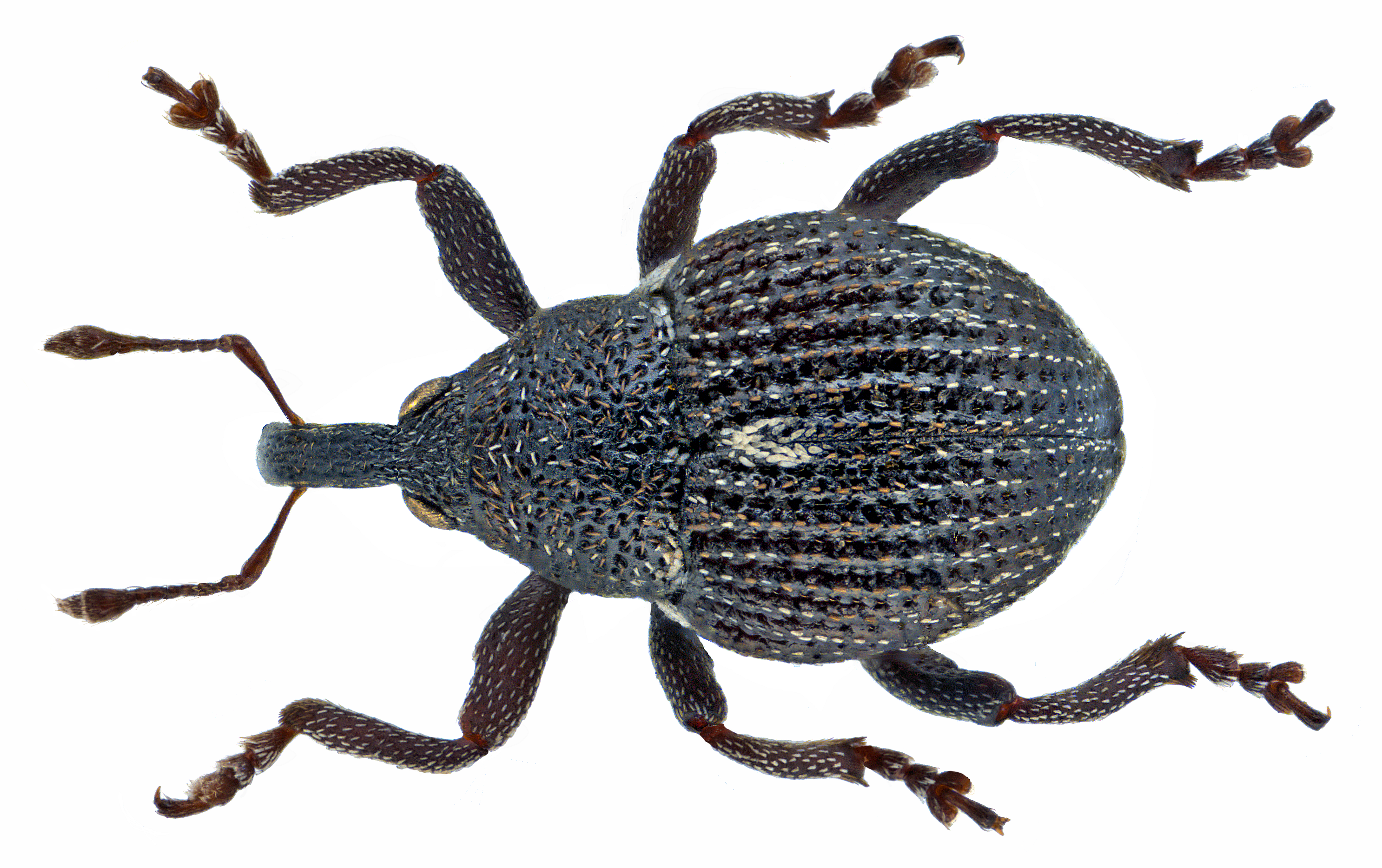 Family: Curculionidae Size: 2,0 mm (1,9 to 2,3 mm) Distribution: palaearctic without North Africa Ecology: lives on Populus tremula Location: England, Wimbledon ex J.J.Walker bequest 1939 Coll. Oxford University Museum of Natural History Photo: U.Schmidt, 2014